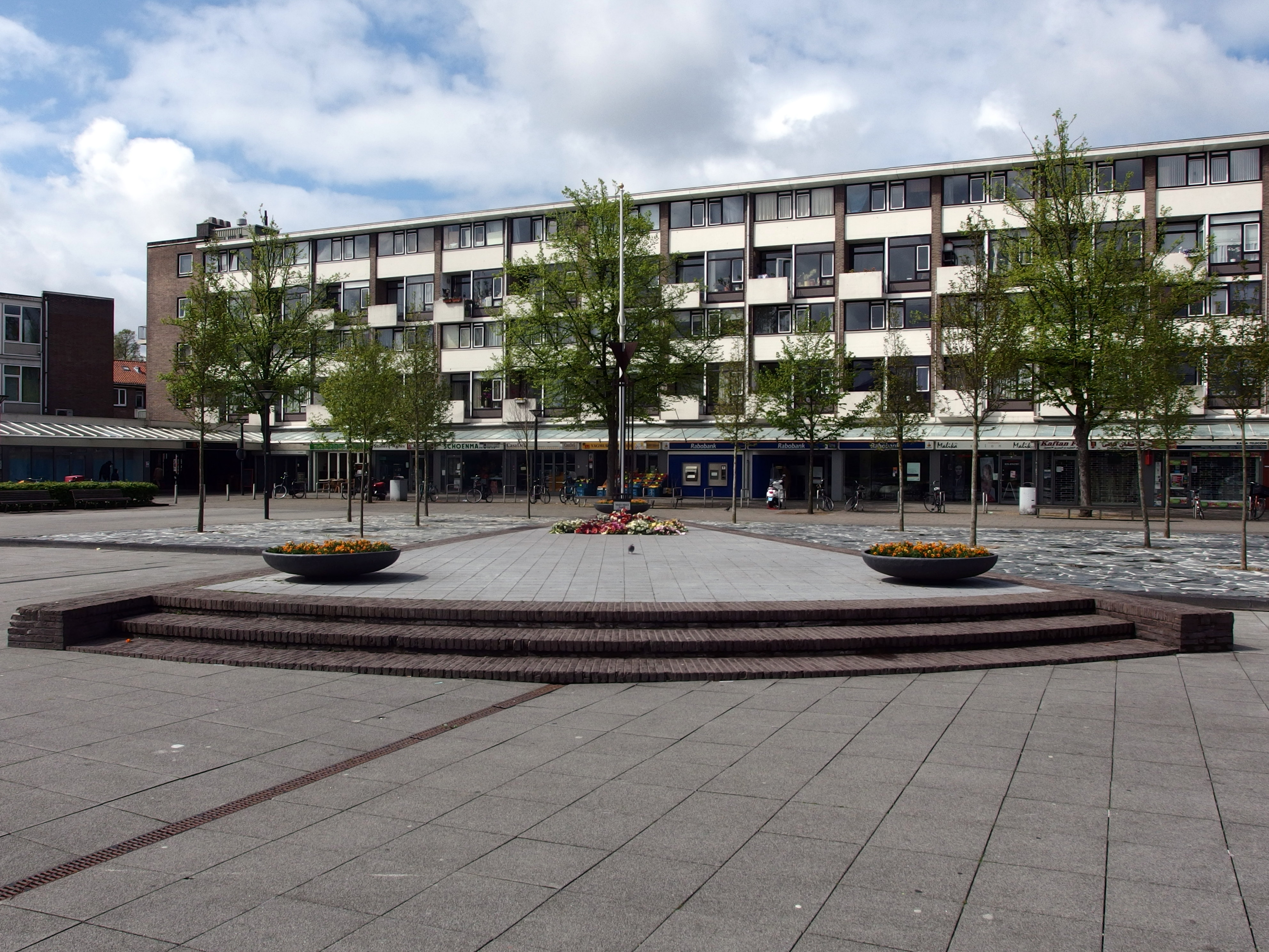 2013-05-12 in Amsterdam Nieuw-West; Slotervaart. World War II memorial at Sierplein. "Bevrijde Vogel" ("Liberated Bird") by Siep van den Berg.